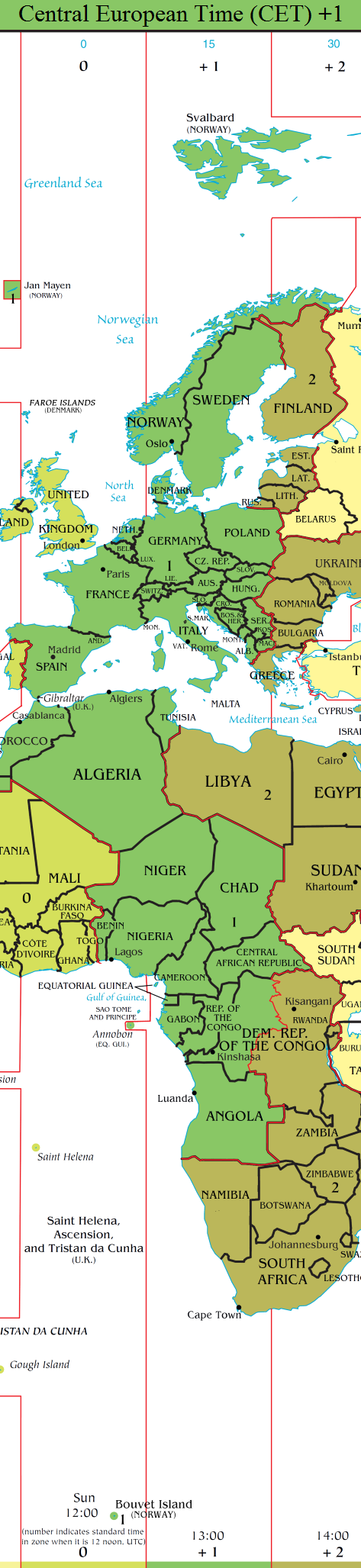 Map of the Central European Time Zone.